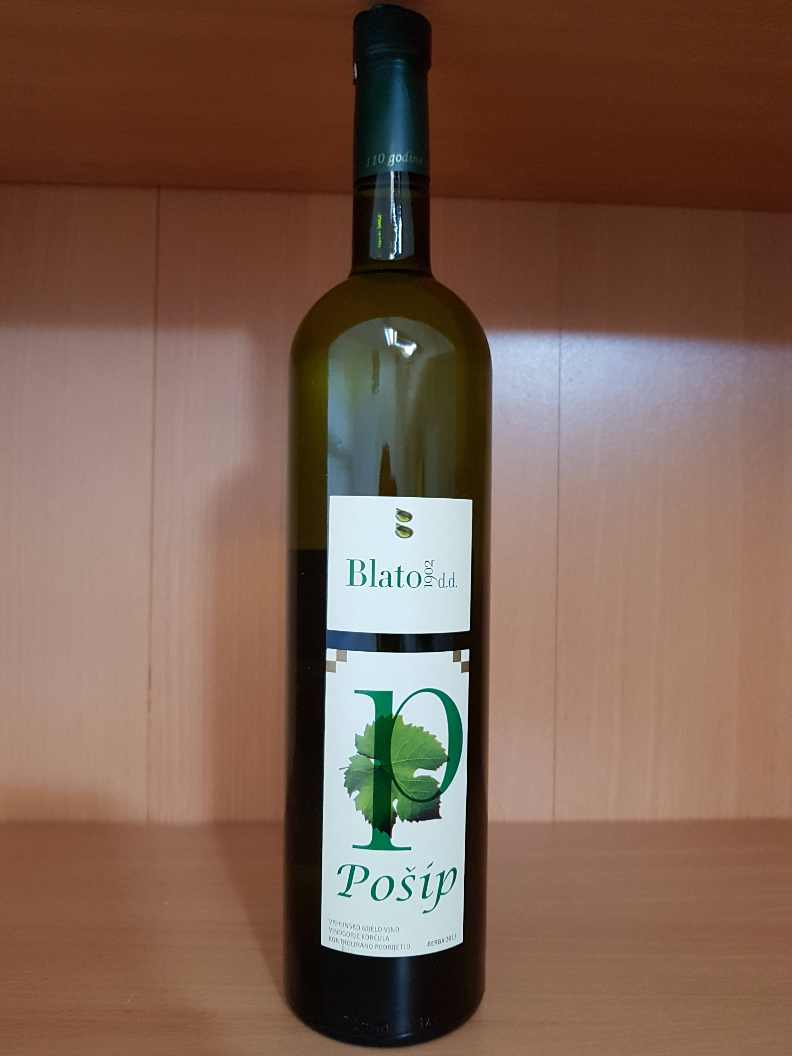 Pošip wine from vinery Blato 1902, Korčula